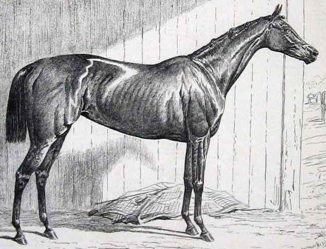 English racehorse Jannette, from Illustrated London News, June 1878. Staff artist